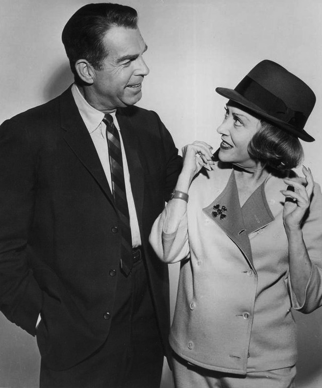 Photo of Fred MacMurray and guest star Gloria Swanson from the television program My Three Sons.